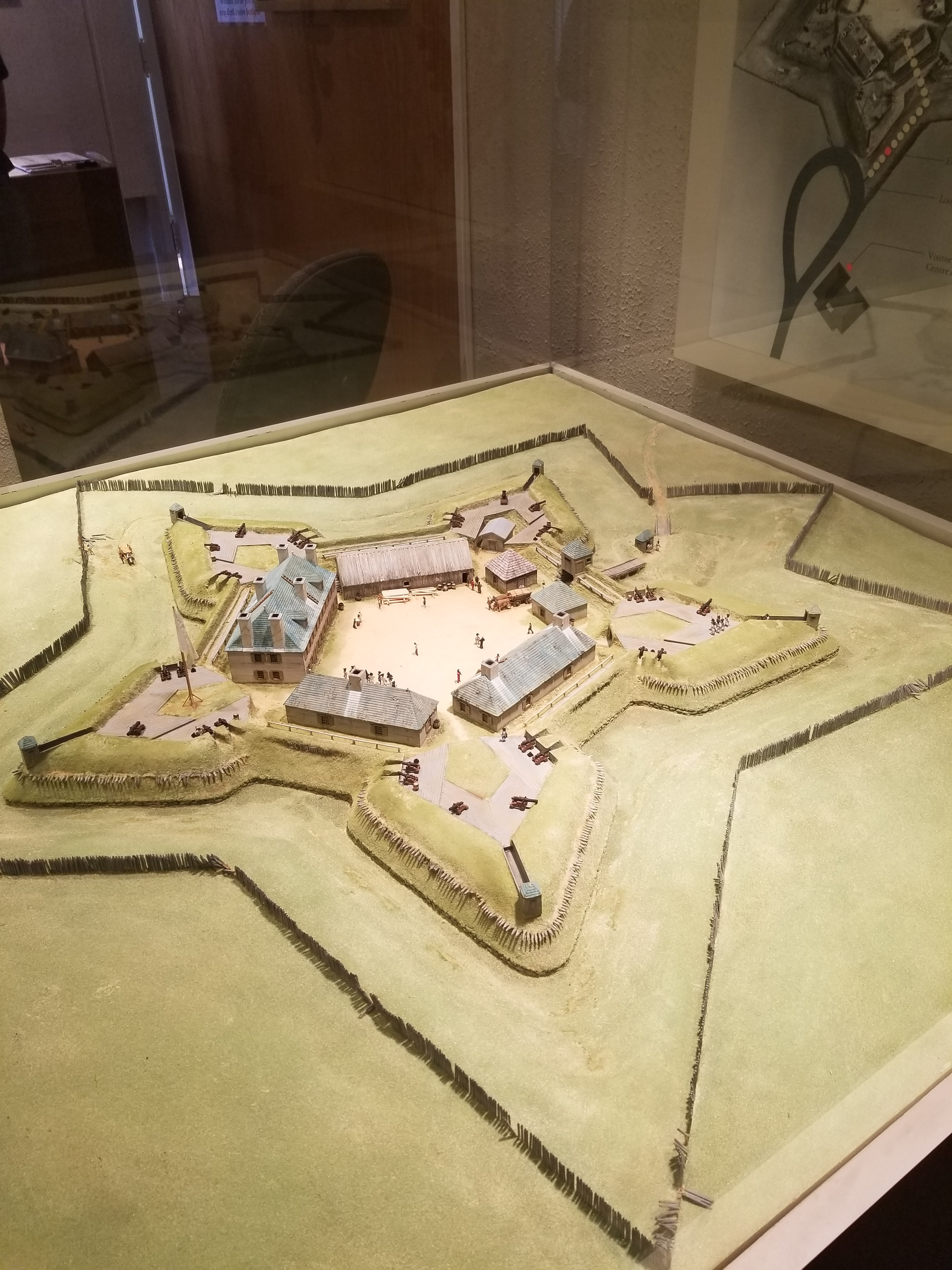 Fort Cumberland Display